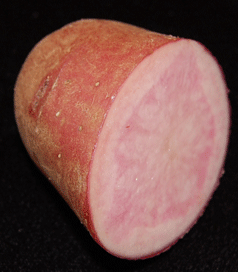 Adirondak Red variety potato tuber